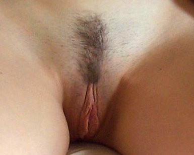 Landing strip pubic hair pattern